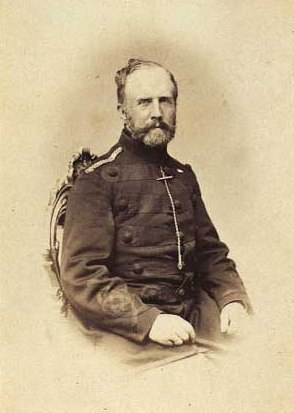 Hans Charles Johannes Beck (1817-1890), Danish army officer